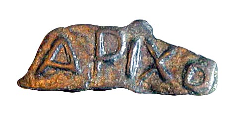 Olbia. Dolphin-coin АРIХО. V BC.